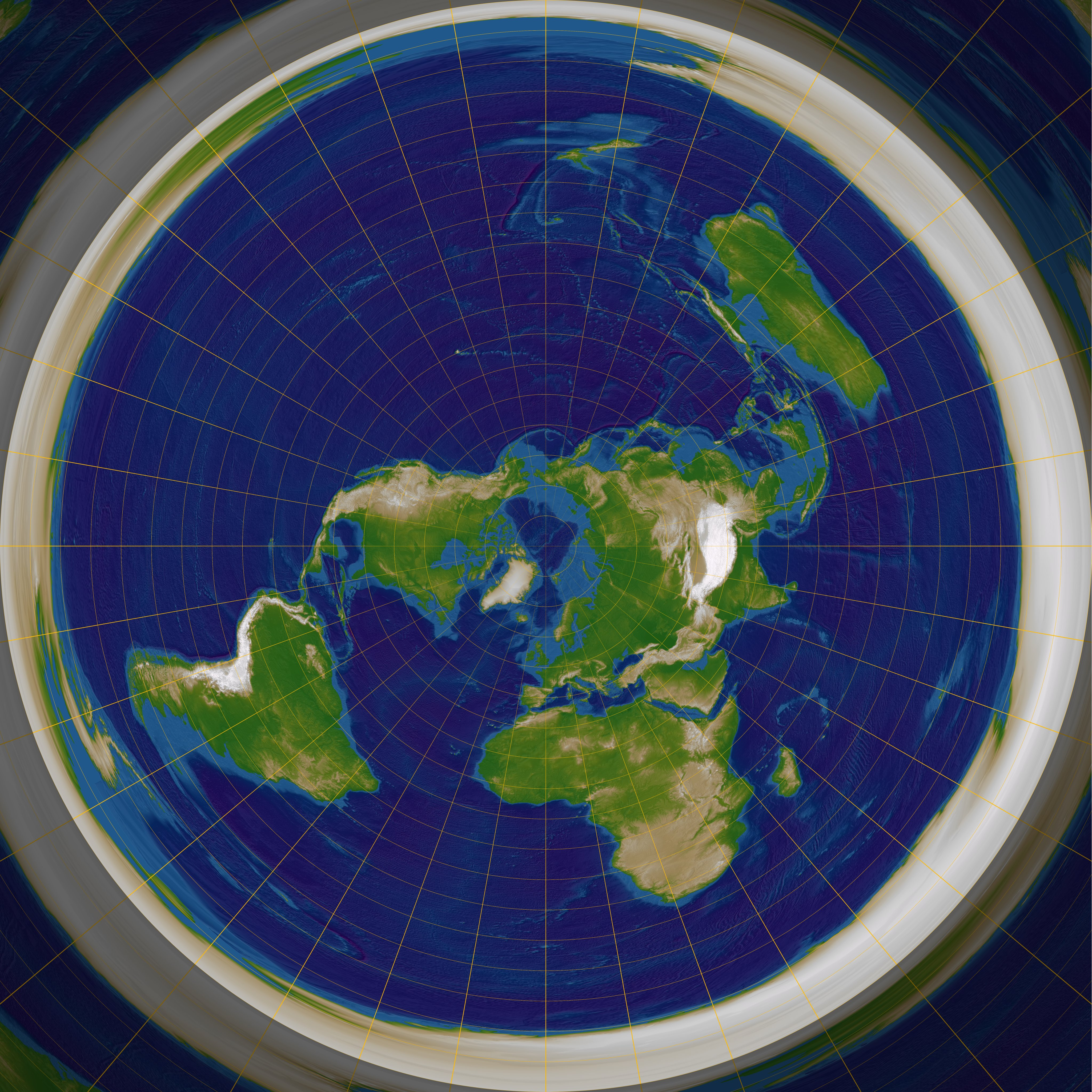 polar azimuthal equidistant projection of the earth (centered to north pole)